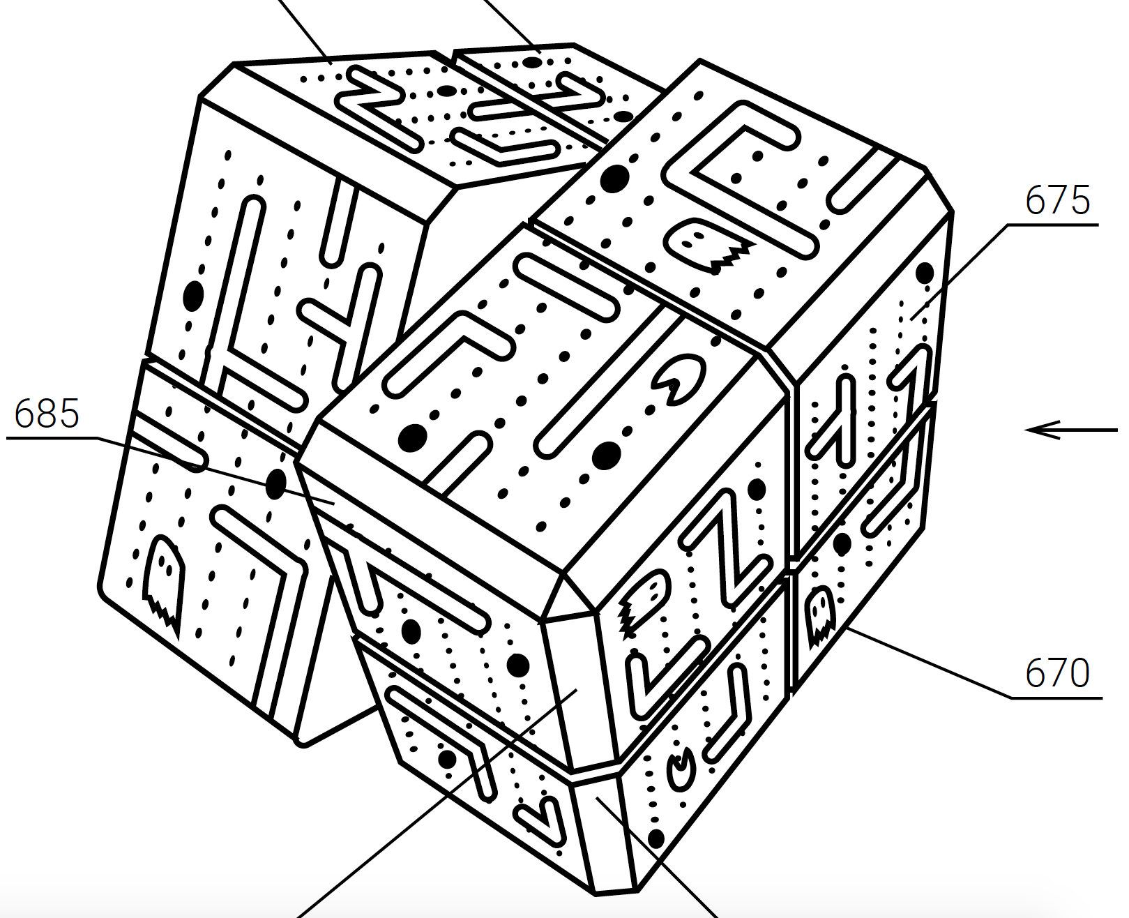 Fragment of the patent US2017057296